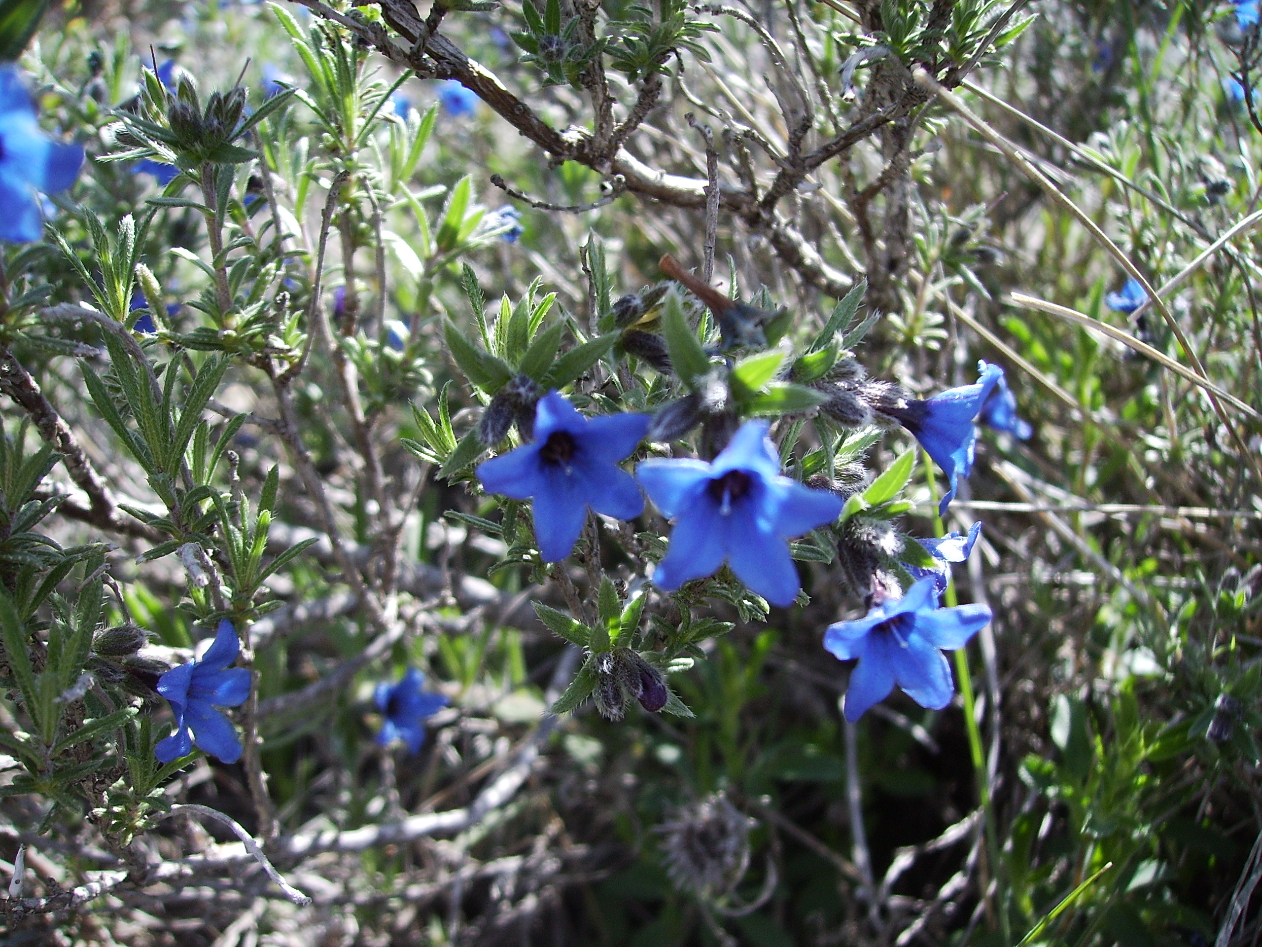 Lithospermum fruticosum in the wild Castelltallat Catalonia